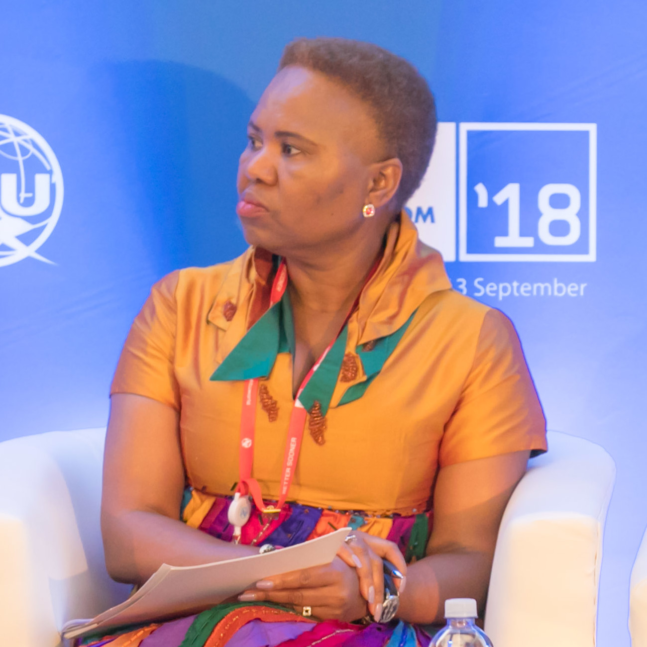 H. E. Ms. Lindiwe Daphney Zulu, H. E. Ms. Nomusa Dube Ncube and Ms. Onica Makwakwa ITU Telecom World 2018 © ITU/R.Farrell